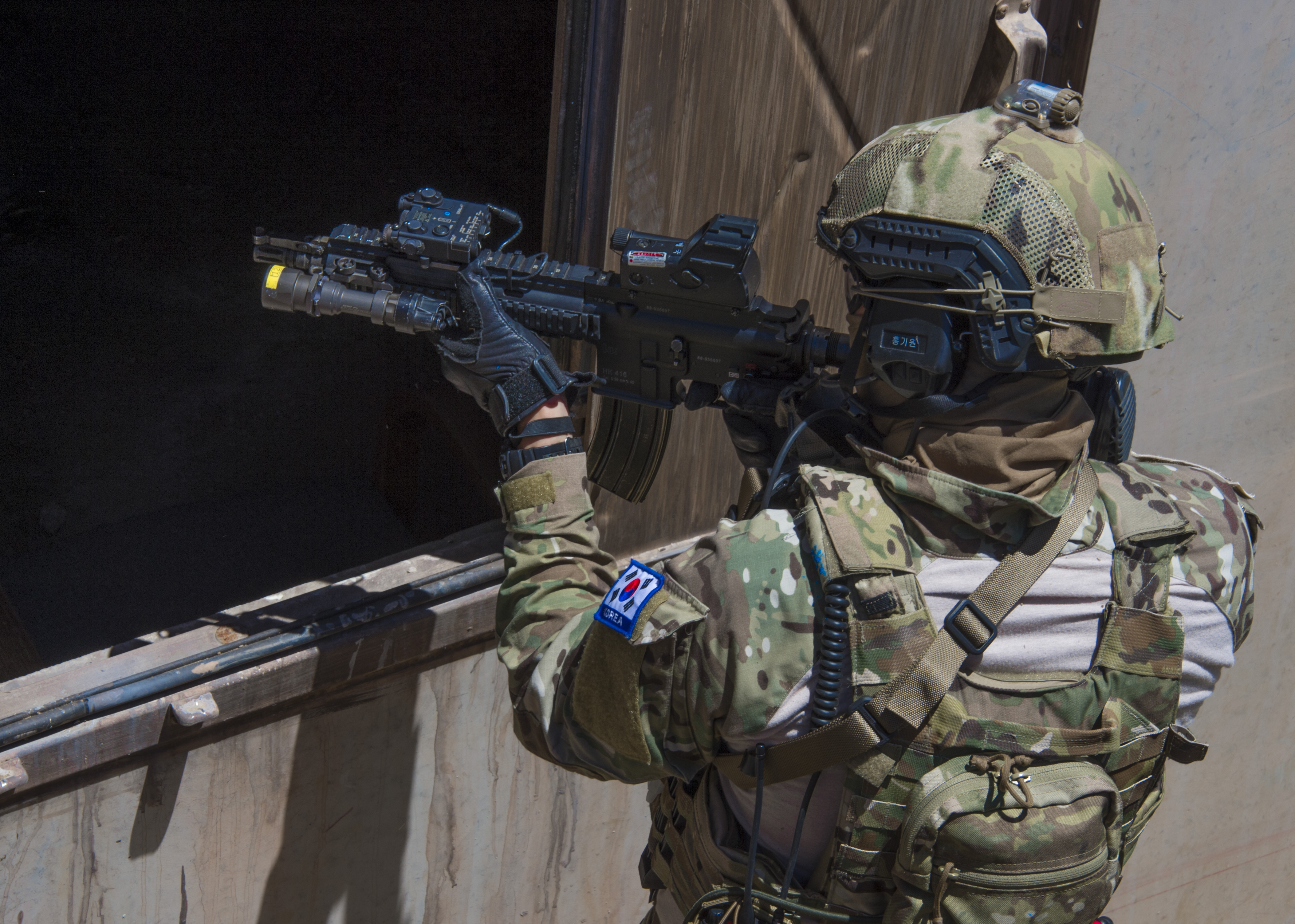 A member of the Republic of Korea SEALs guards a window during an air assault exercise as part as Rim of the Pacific (RIMPAC) Exercise 2014. The world's largest international maritime exercise, RIMPAC provides a unique training opportunity that helps participants foster and sustain the cooperative relationships that are critical to ensuring the safety of sea lanes and security on the world's oceans. Twenty-two nations, more than 40 ships, six submarines, more than 200 aircraft and 25,000 personnel are participating in RIMPAC. (U.S. Navy photo by Mass Communication Specialist 1st Class Daniel Gay/Released)